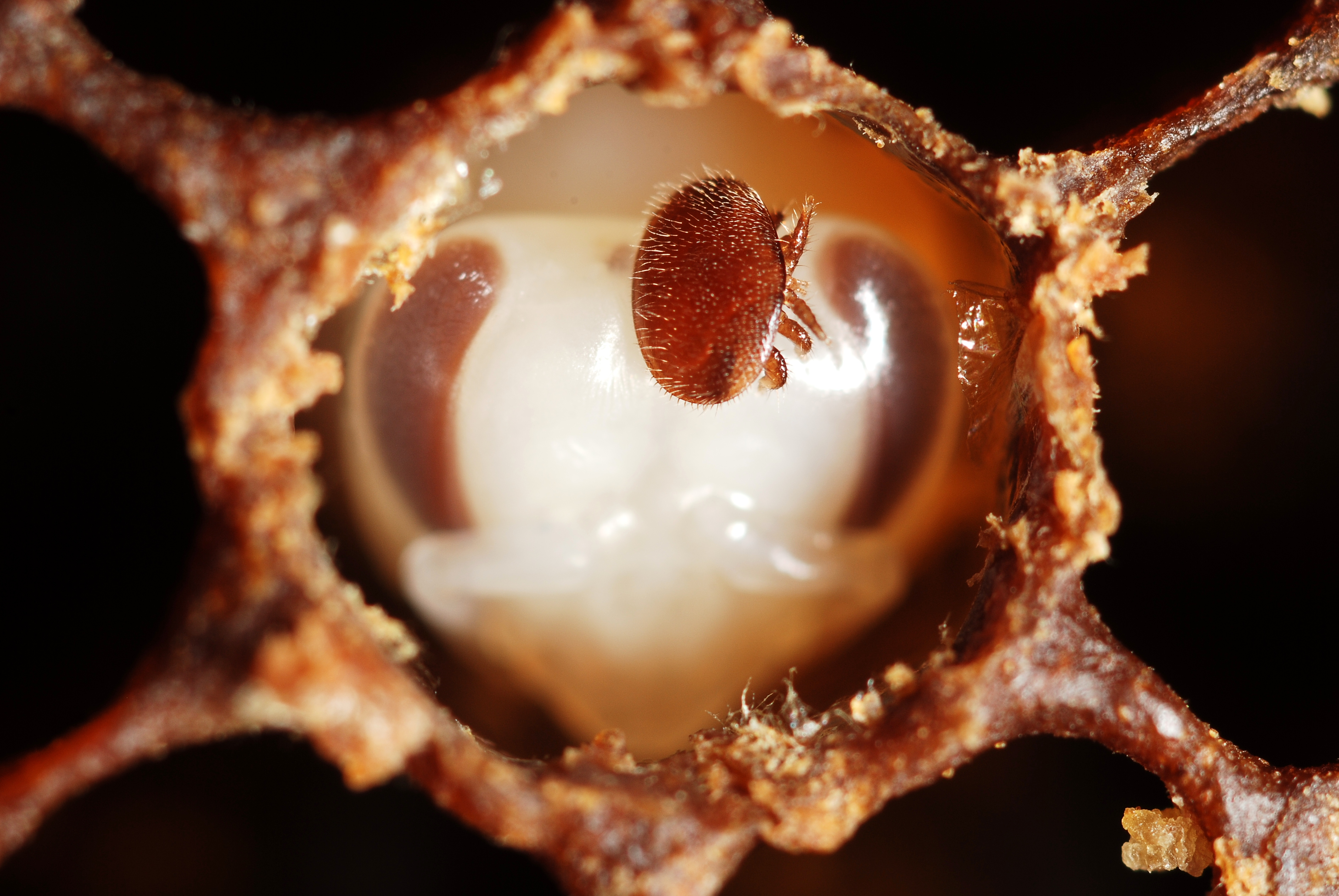 The parasite mite Varroa destructor (adult female) on the head of its host : a bee nymph (honeybee - Apis mellifera).